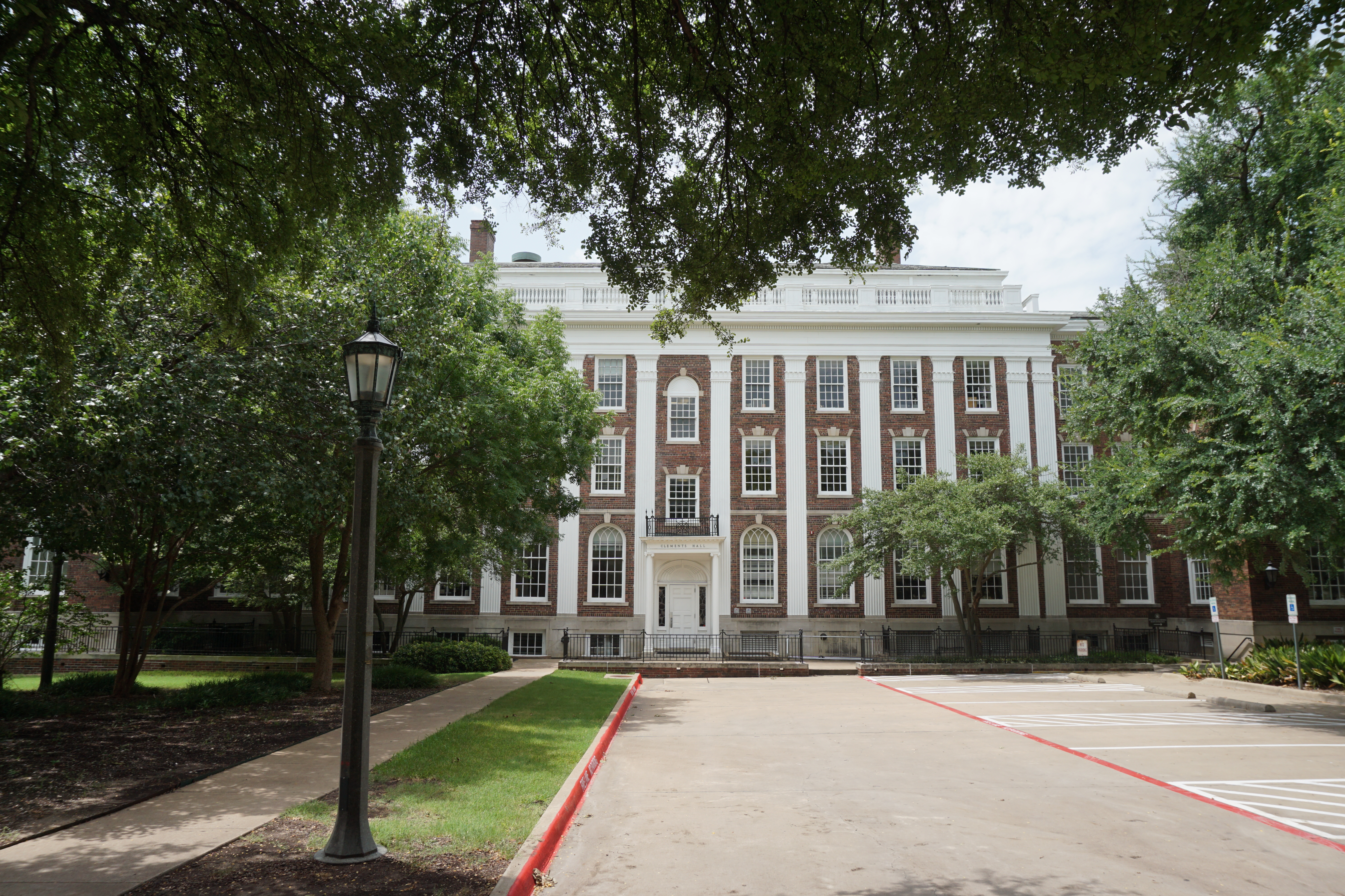 Clements Hall on the campus of Southern Methodist University in University Park, Texas (United States).